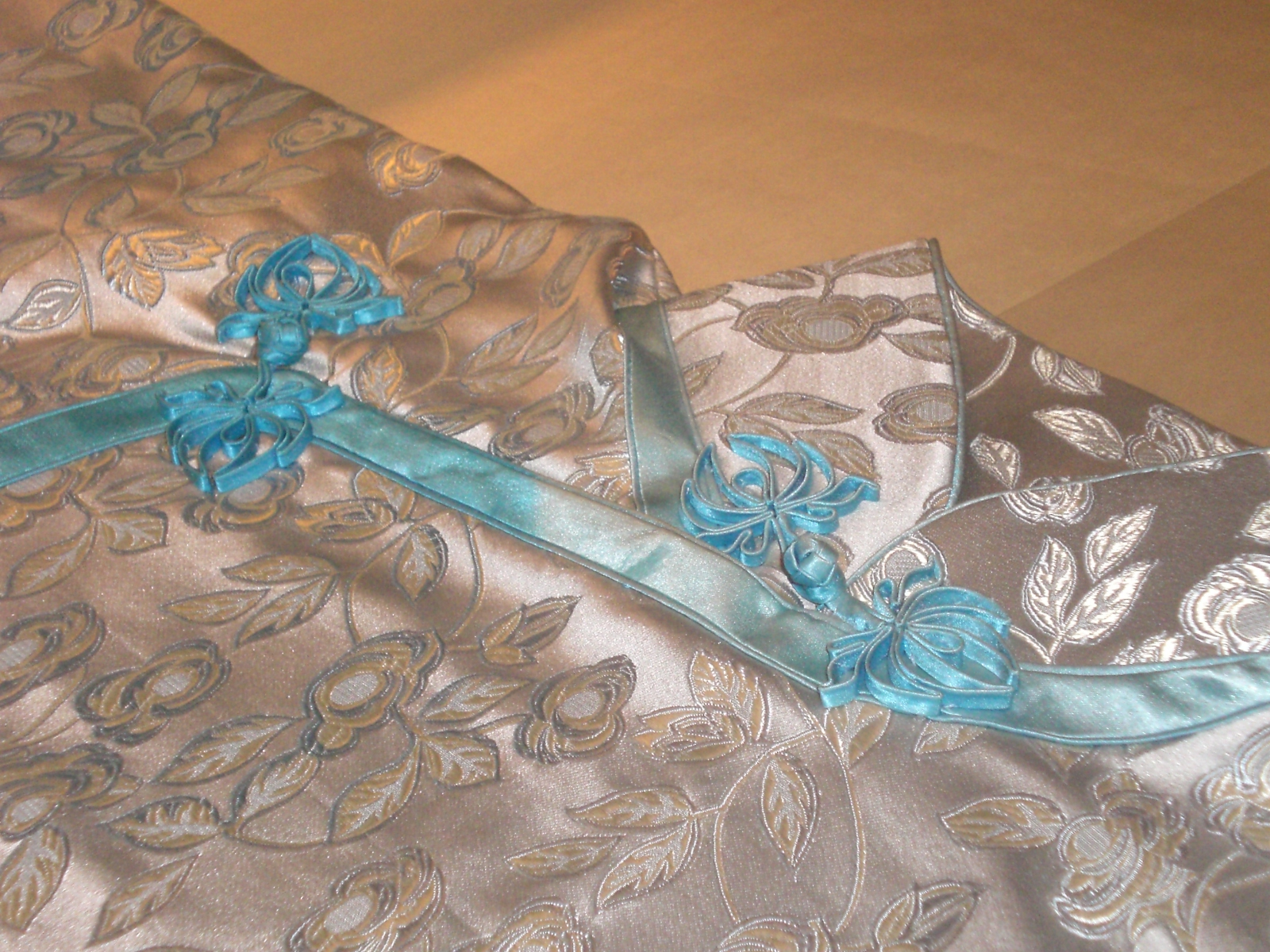 香港歷史博物館, Hong Kong Museum of History, 旗袍, Cheongsam for women.